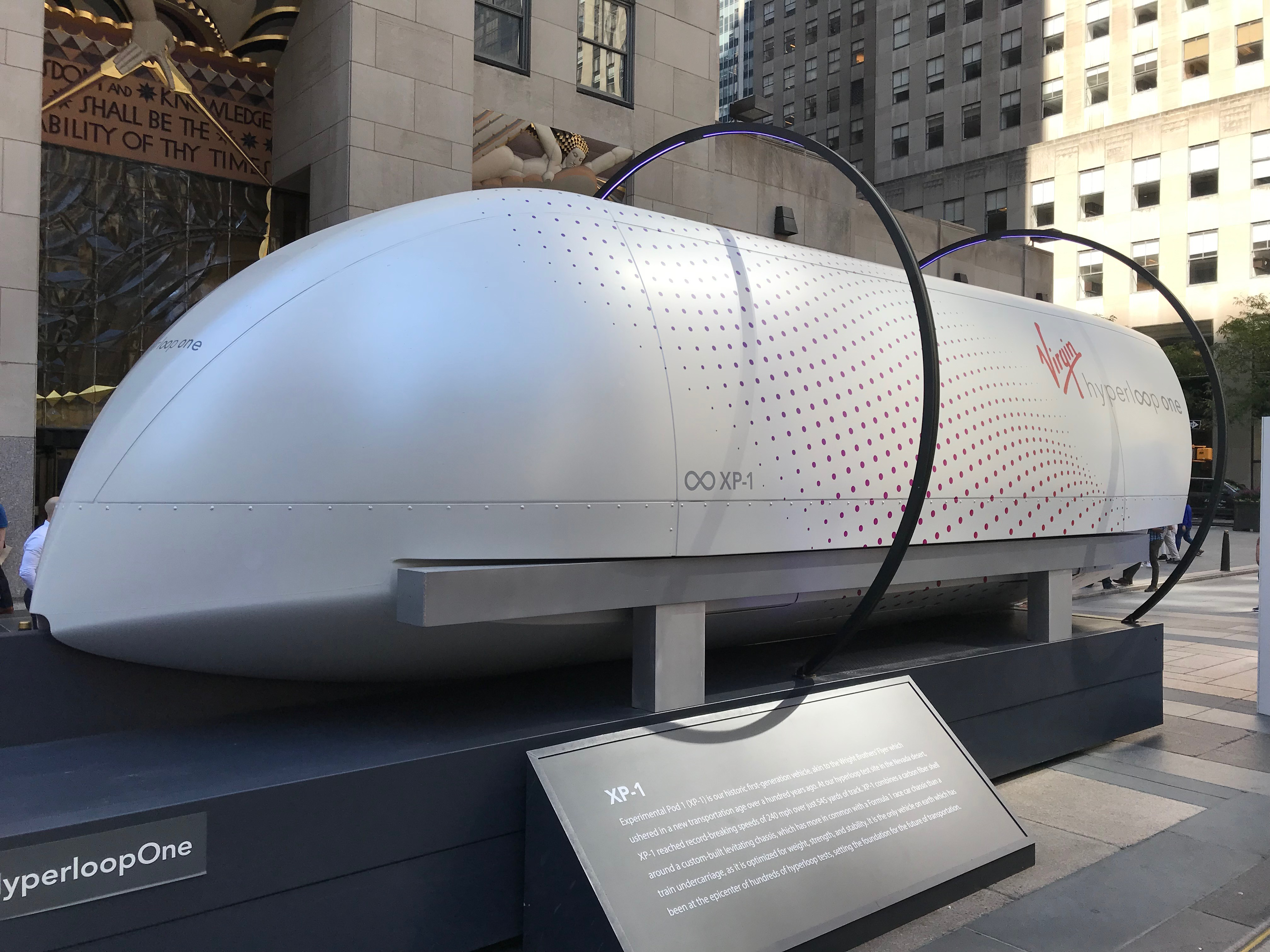 Front view of Virgin Hyperloop One XP-1 test pod on display at Rockefeller Center on September 27, 2019